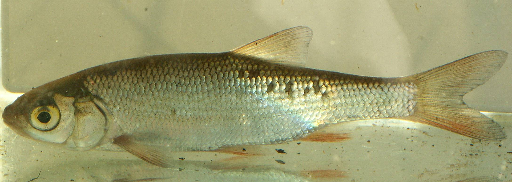 Ide (Leuciscus idus) from Wageningen, the Netherlands (10 cm)